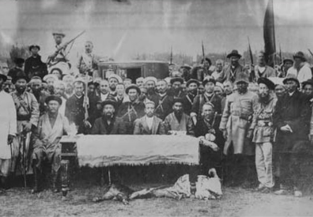 Uyghur freedom fighters 1930s